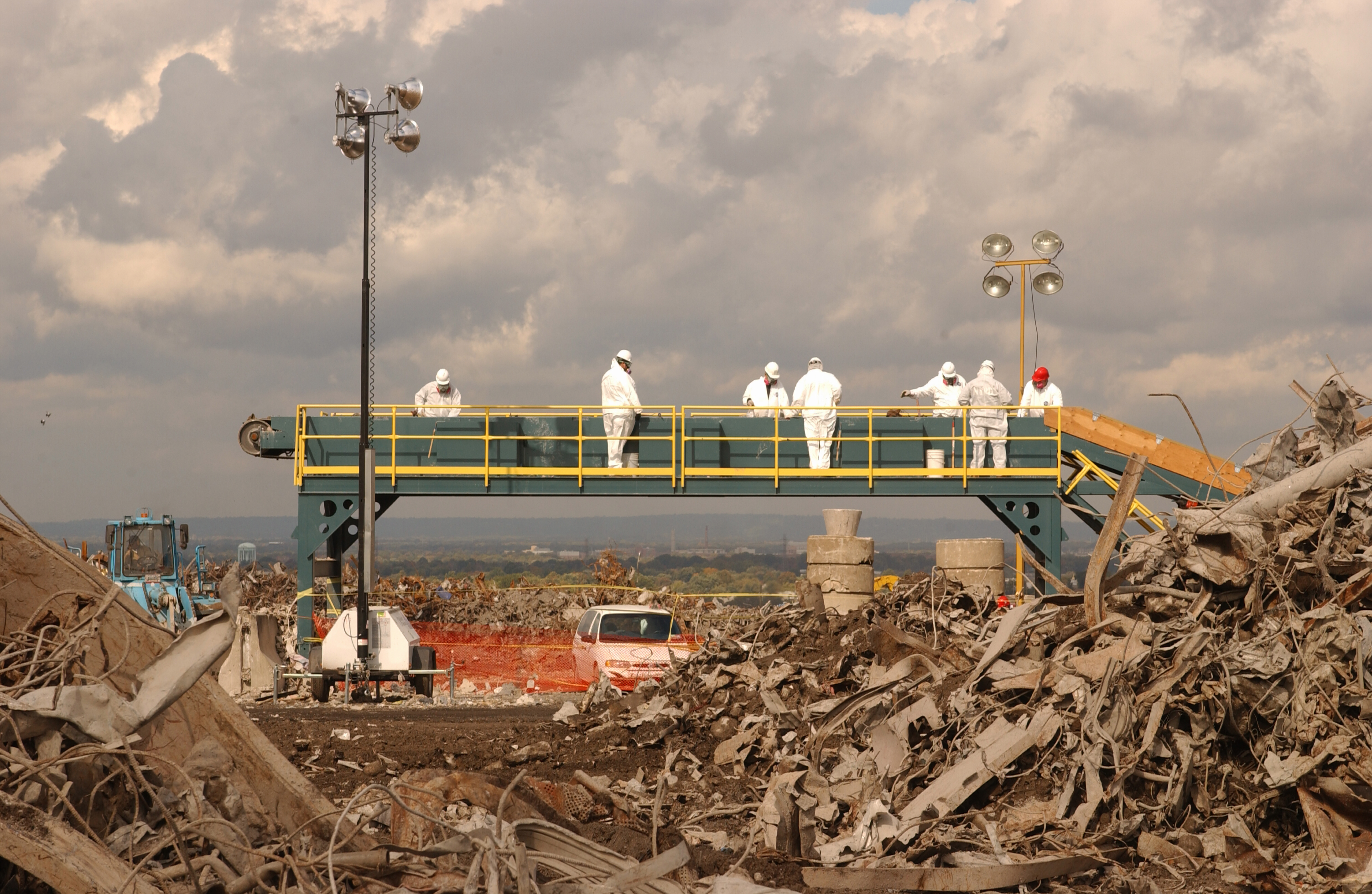 New York, NY, October 16, 2001 -- Debris removal from Ground Zero to the Staten Island landfill continues as a 24 hours a day operation. Photo by Andrea Booher/ FEMA News Photo